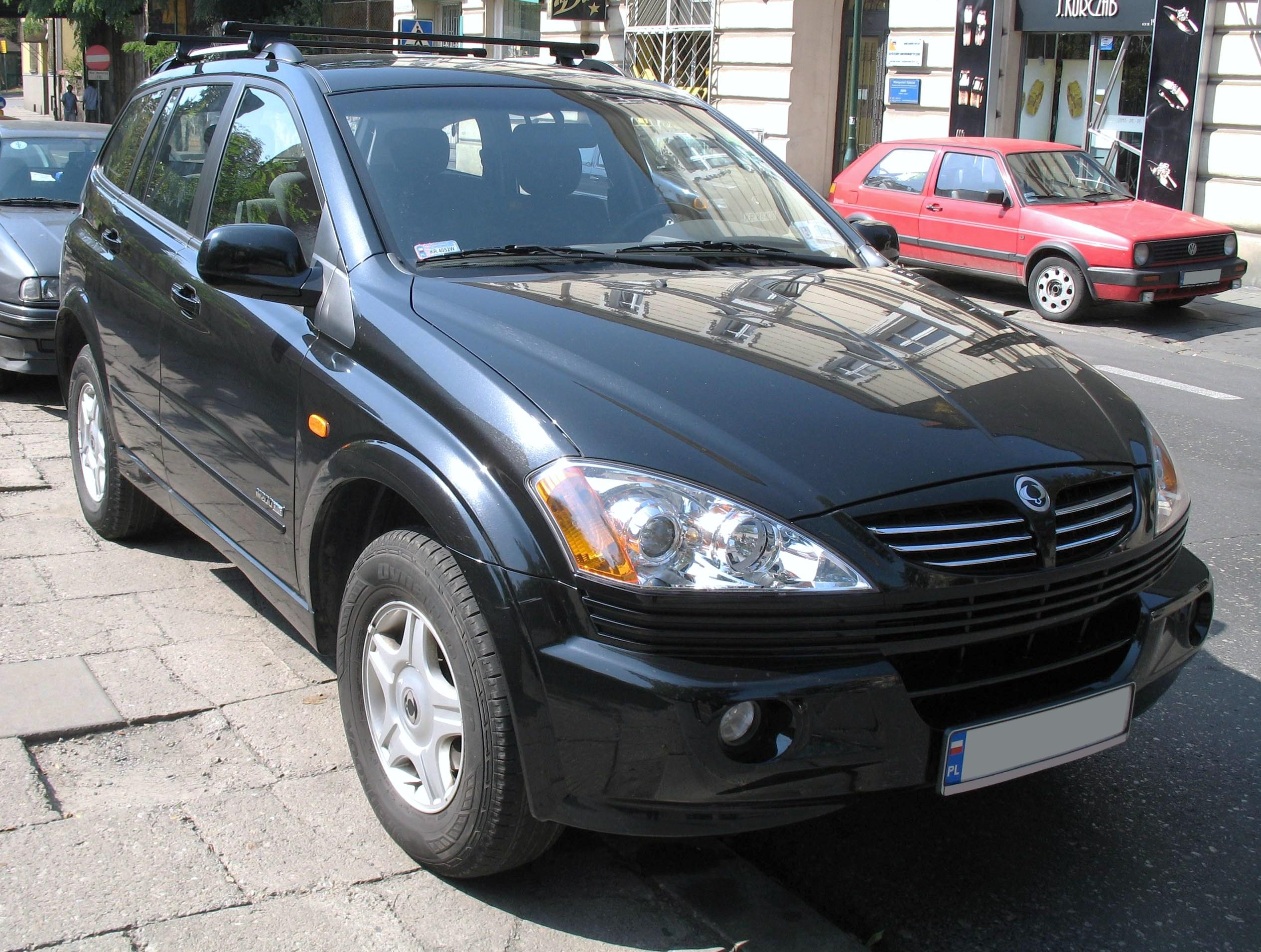 Ssangyong Kyron M200 XDi in Kraków, Poland.